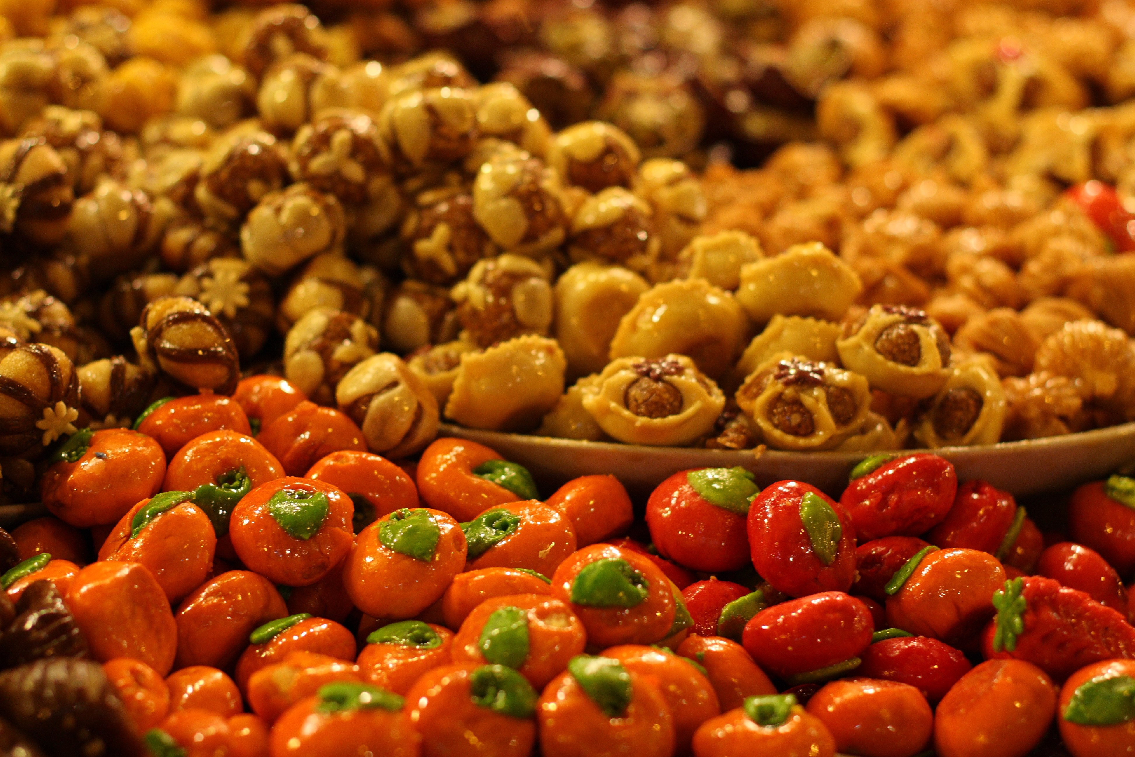 Marrakesh, Morocco